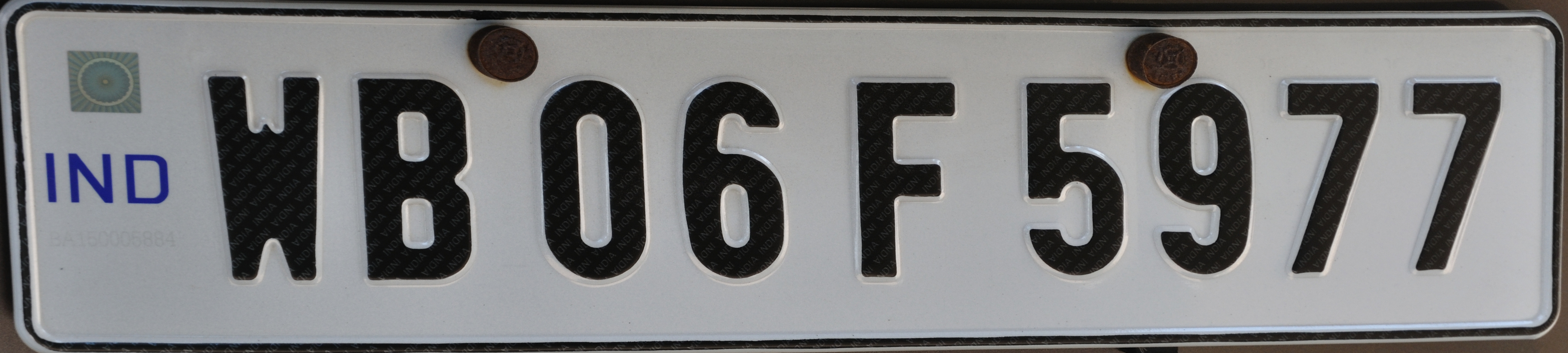 New tamper proof Indian vehicle registration or number plate.